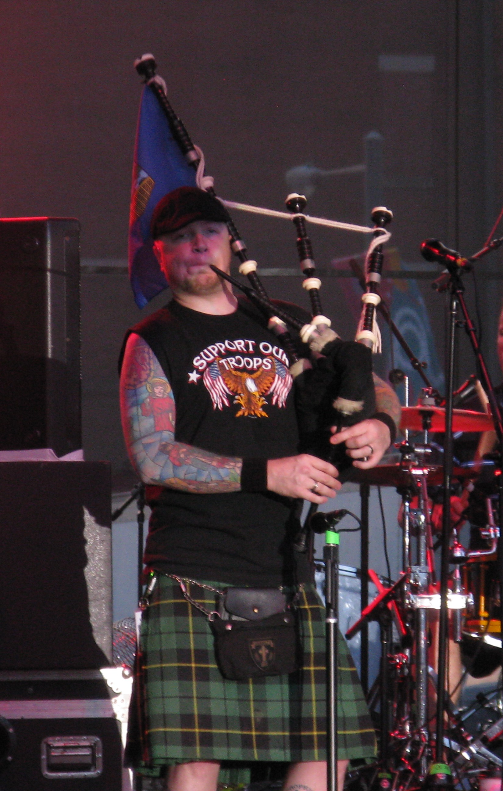 The Dropkick Murphys were the final act of the 2008 School of Rock Festival. Taken on June 29, 2008, Elfreth's Alley, Philadelphia, PA, US, Canon PowerShot A650 IS